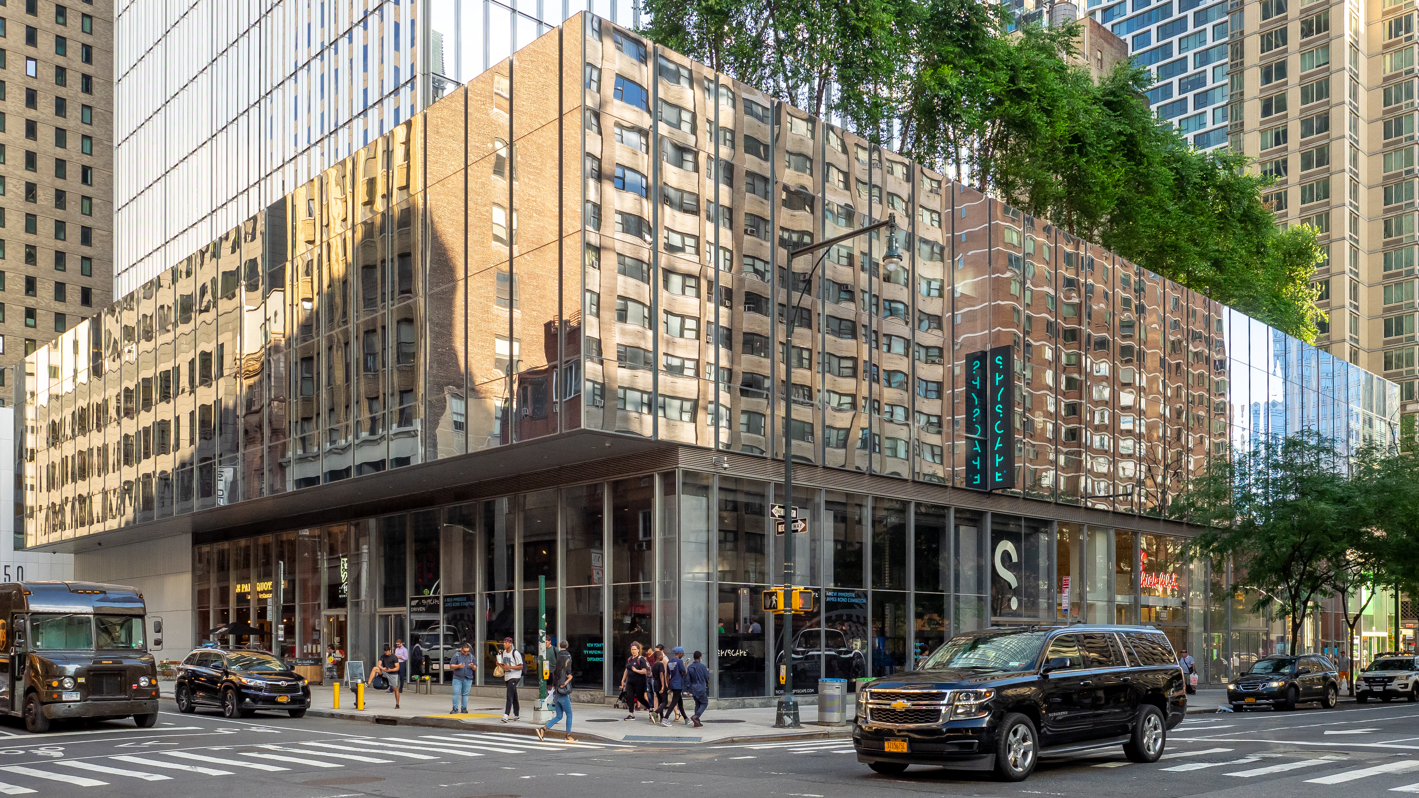 Midtown Manhattan, New York City